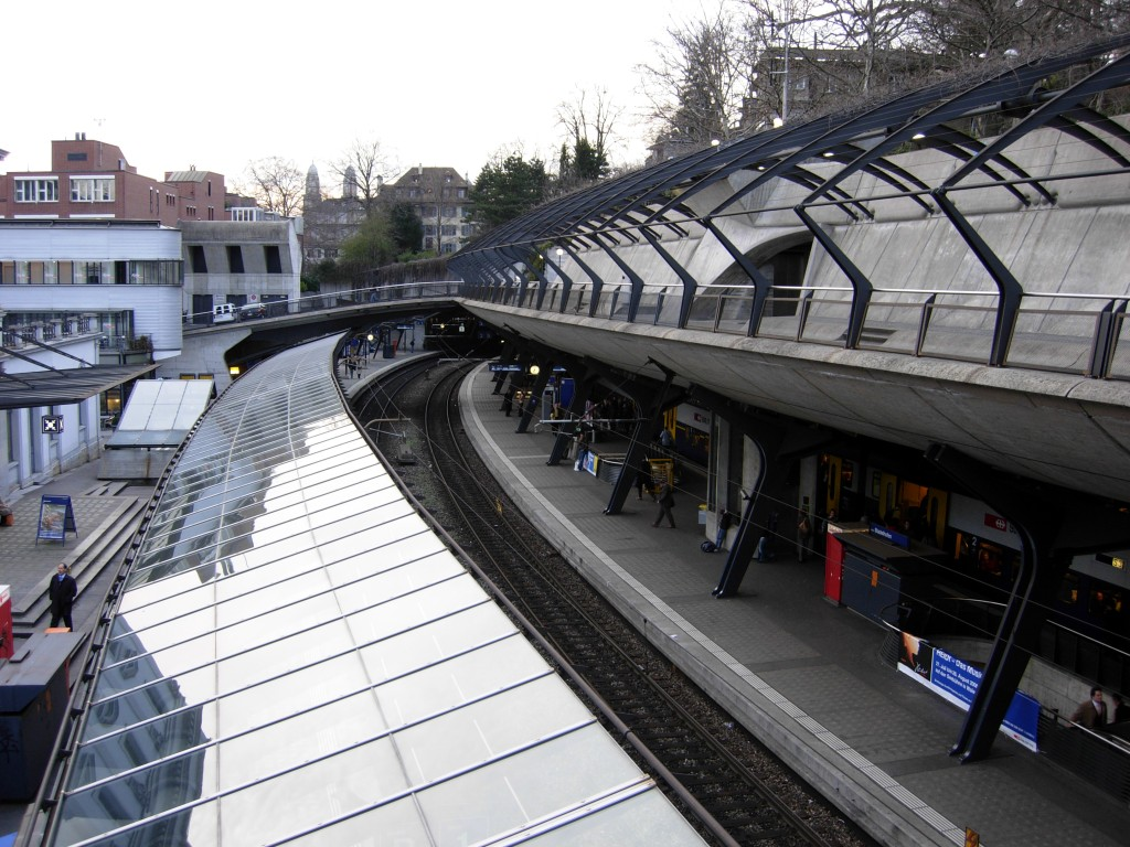 I took this picture myself and release it into the public domain. If you use it for anything, please drop me a courtesy note on my user page.